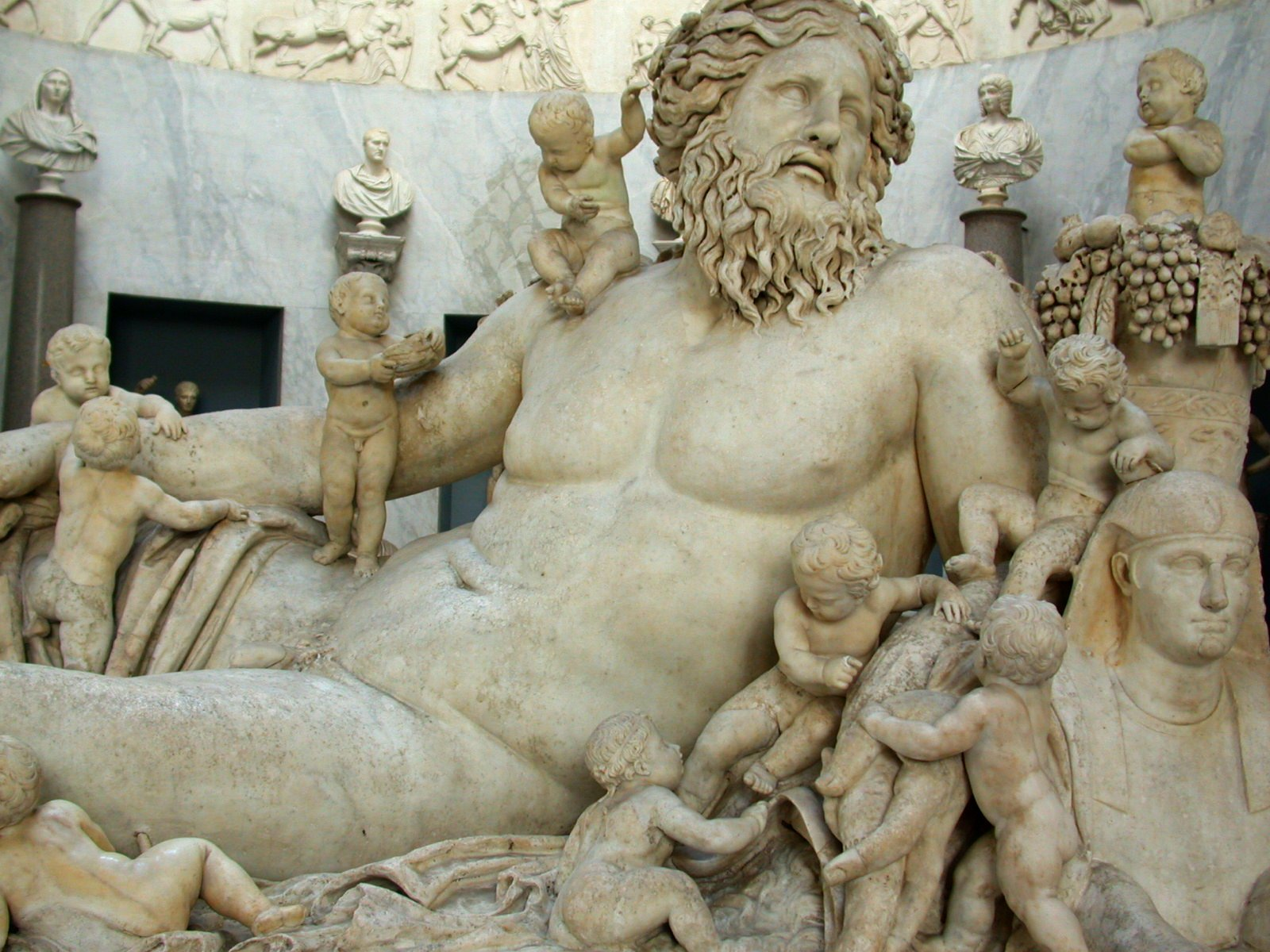 Statue of the river Nile, Museo Chiaramonti, Vatican Museums, Rome.